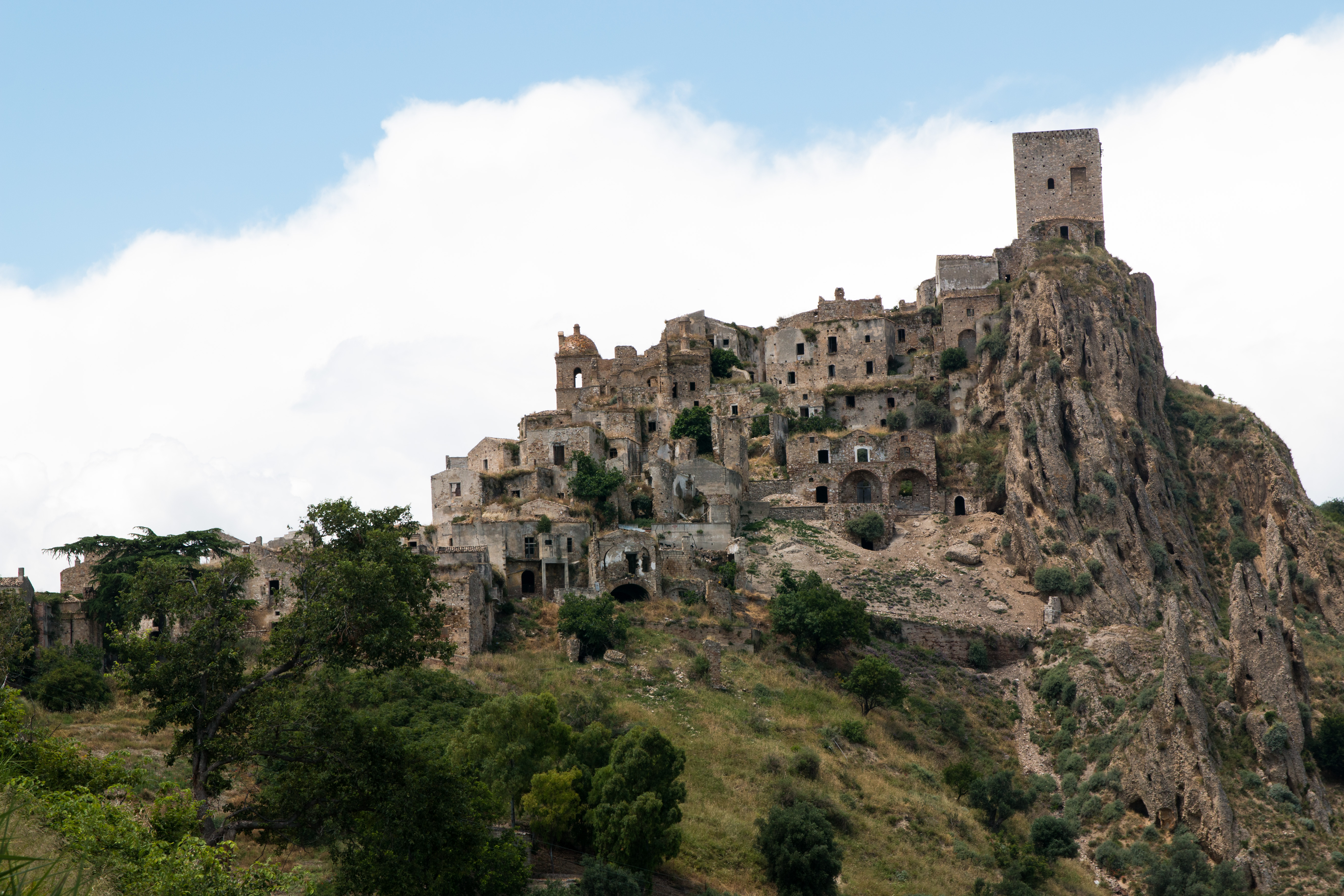 View of old Craco